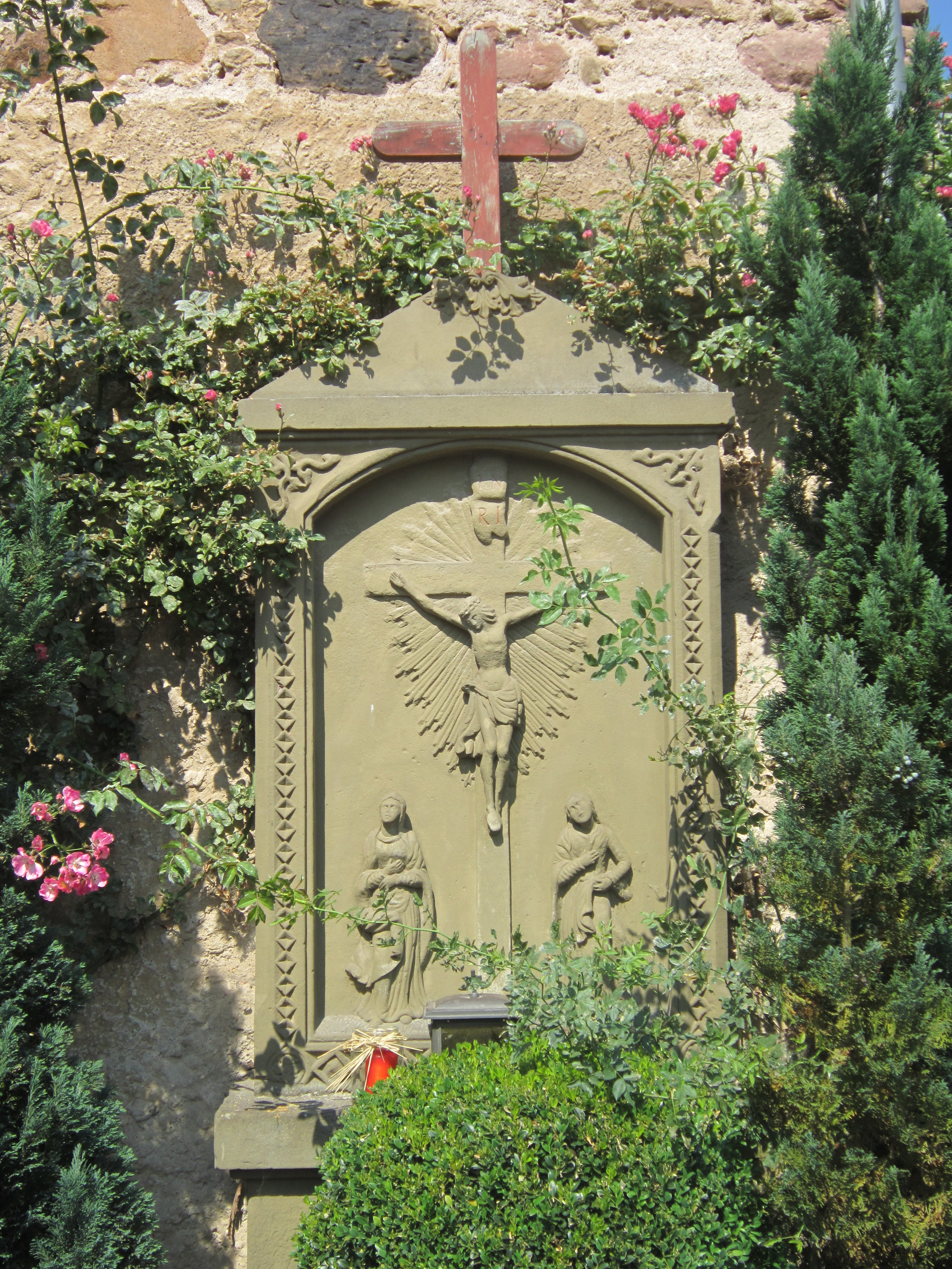 Way side shrine in Hausen, a quarter of the German spa town of Bad Kissingen in Lower Franconia (Bavaria), Address: Klosterweg 7a.